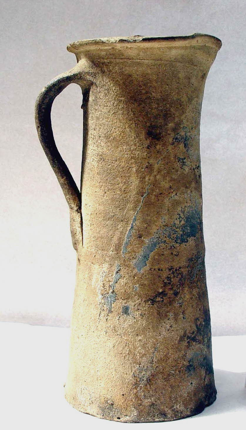 15th century Coarse Border ware conical jug. buff fabric. height 25 cm.